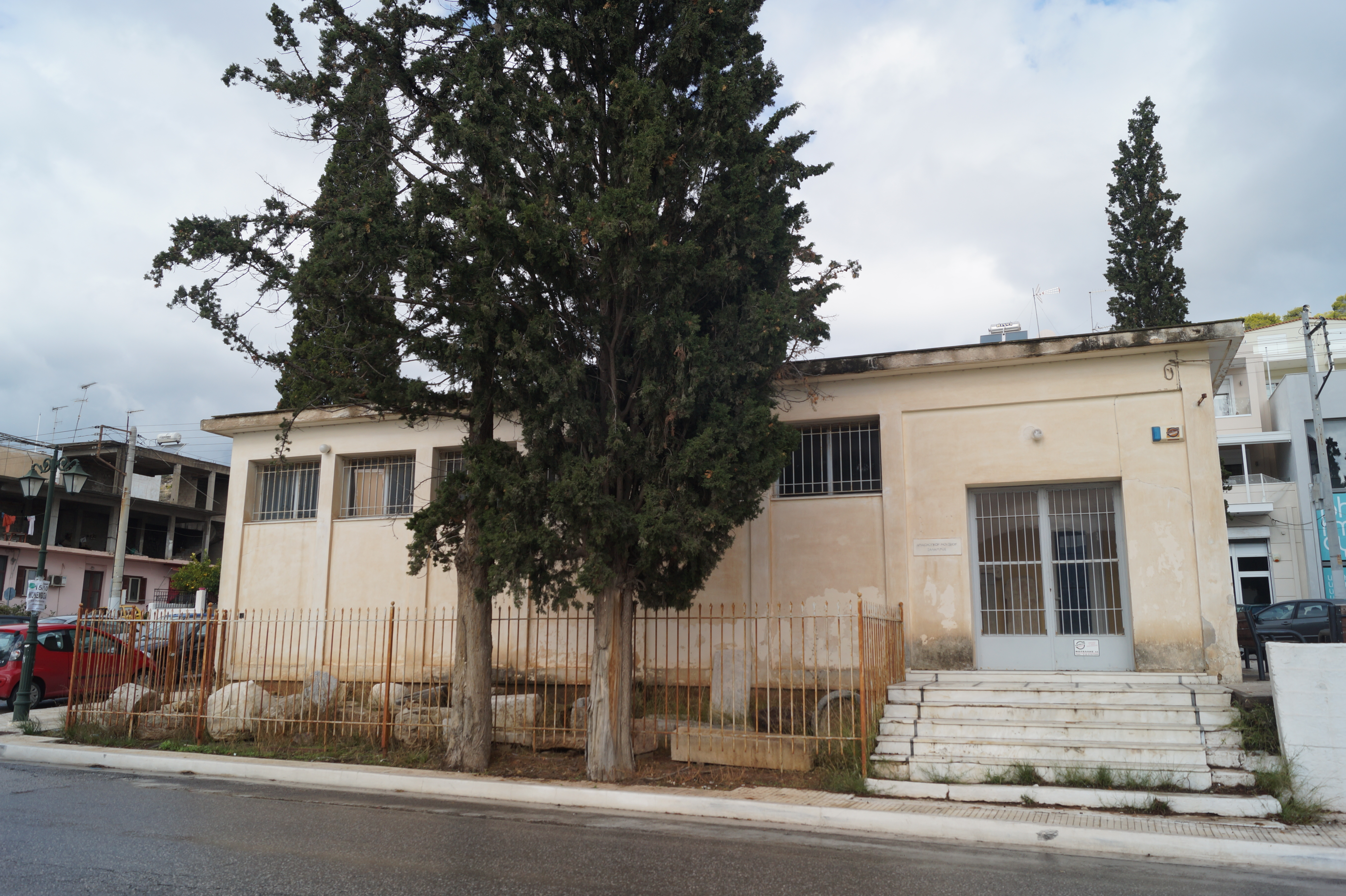 Salamis (City), District Agios Nikolaos, Salamis, Greece: Old Archaeological Museum of Salamis.